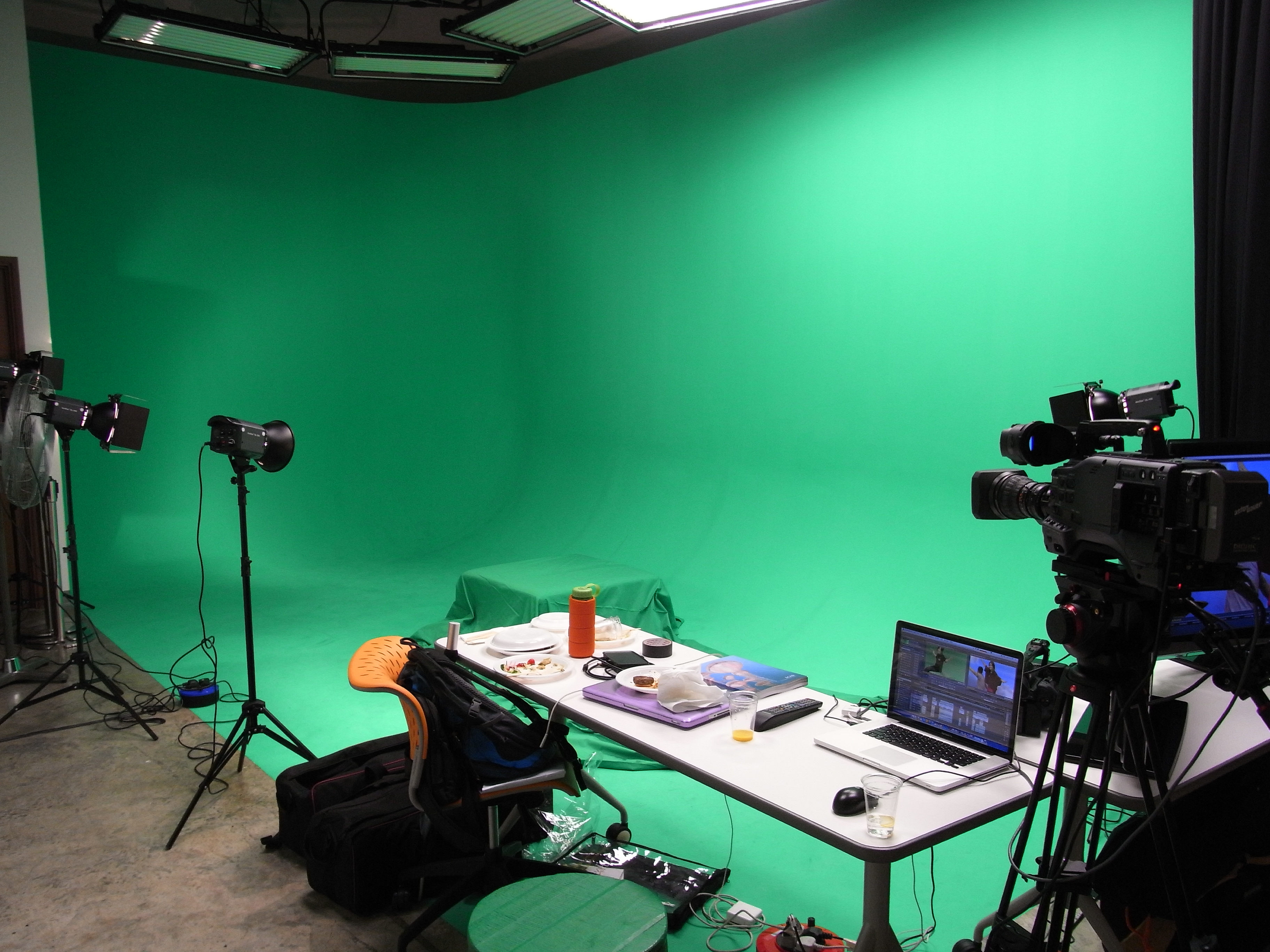 薩凡納藝術設計學院, SCAD Hong Kong, No.292 Tai Po Road, Hong Kong